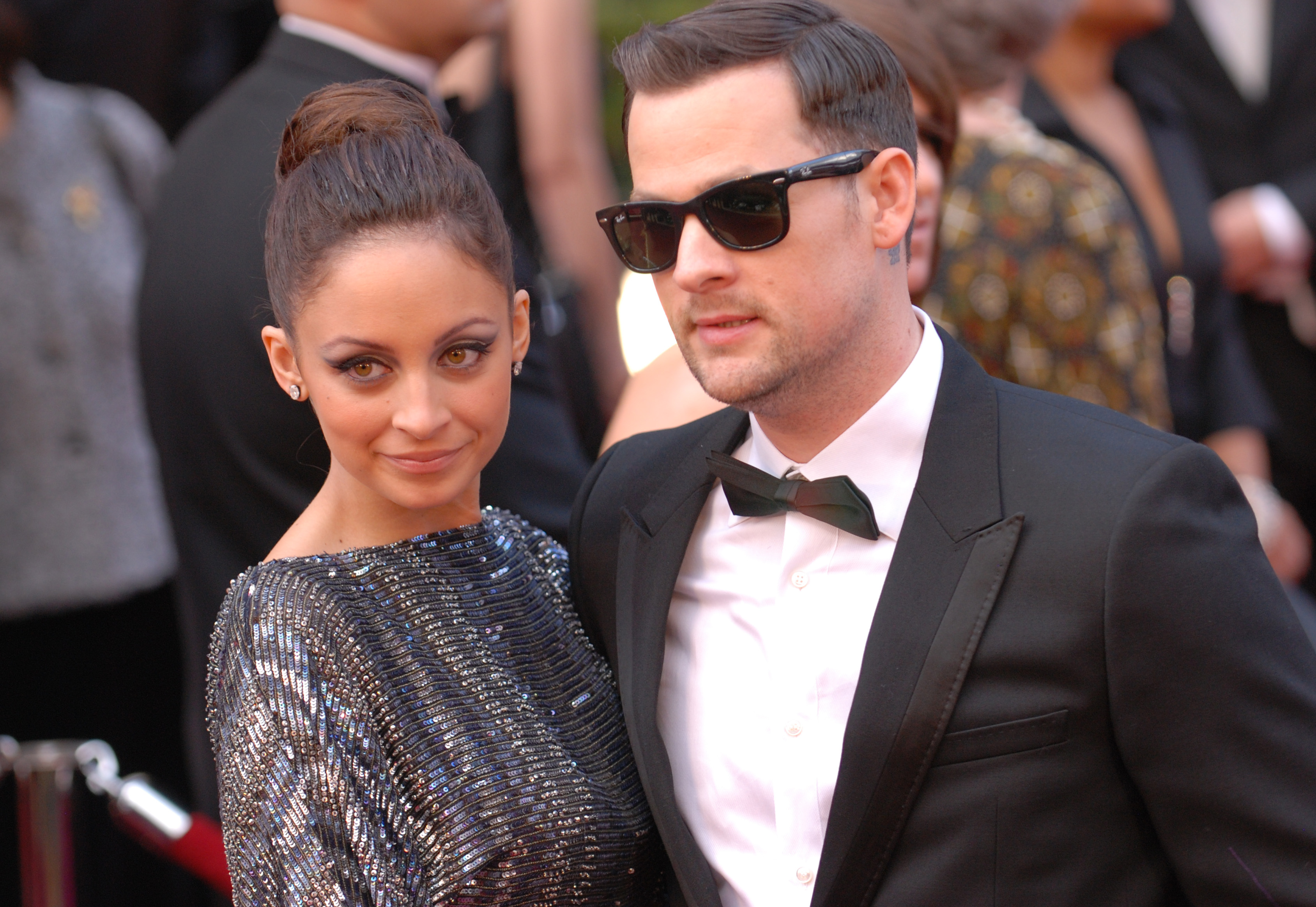 Nicole Richie and Good Charlotte lead singer Joel Madden arrive at the 82nd Academy Awards, March 7, in Hollywood, Calif.